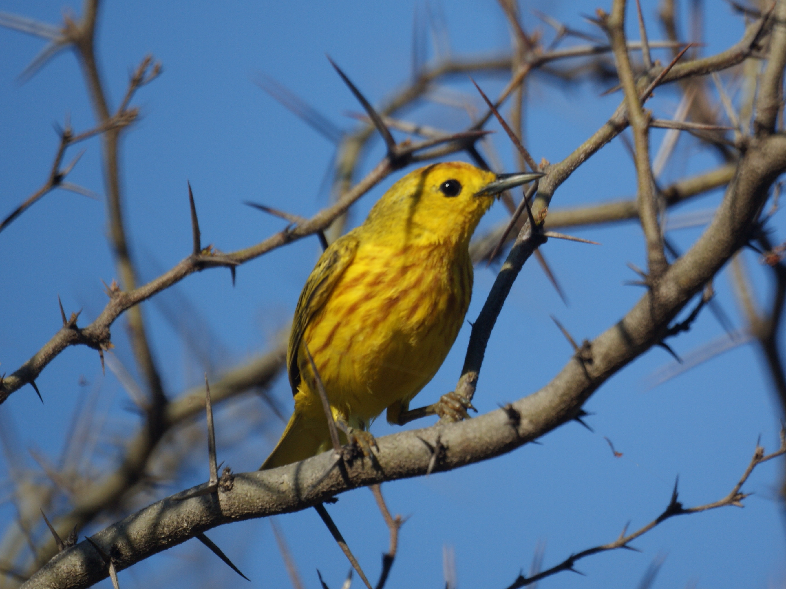 Mangrove Warbler Setophaga petechia bartholemica, Antigua, West Indies